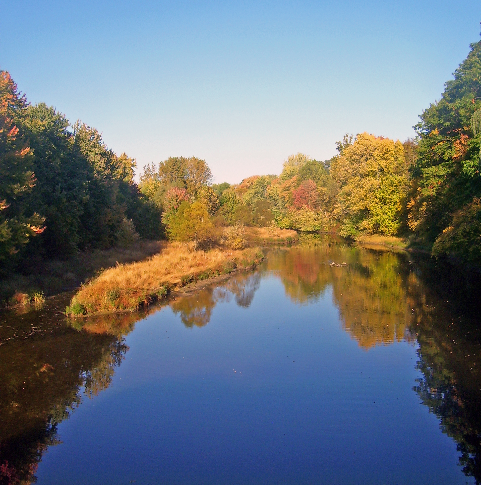 Fishkill Creek viewed from the NY 52 bridge just east of the village of Fishkill, NY, USA